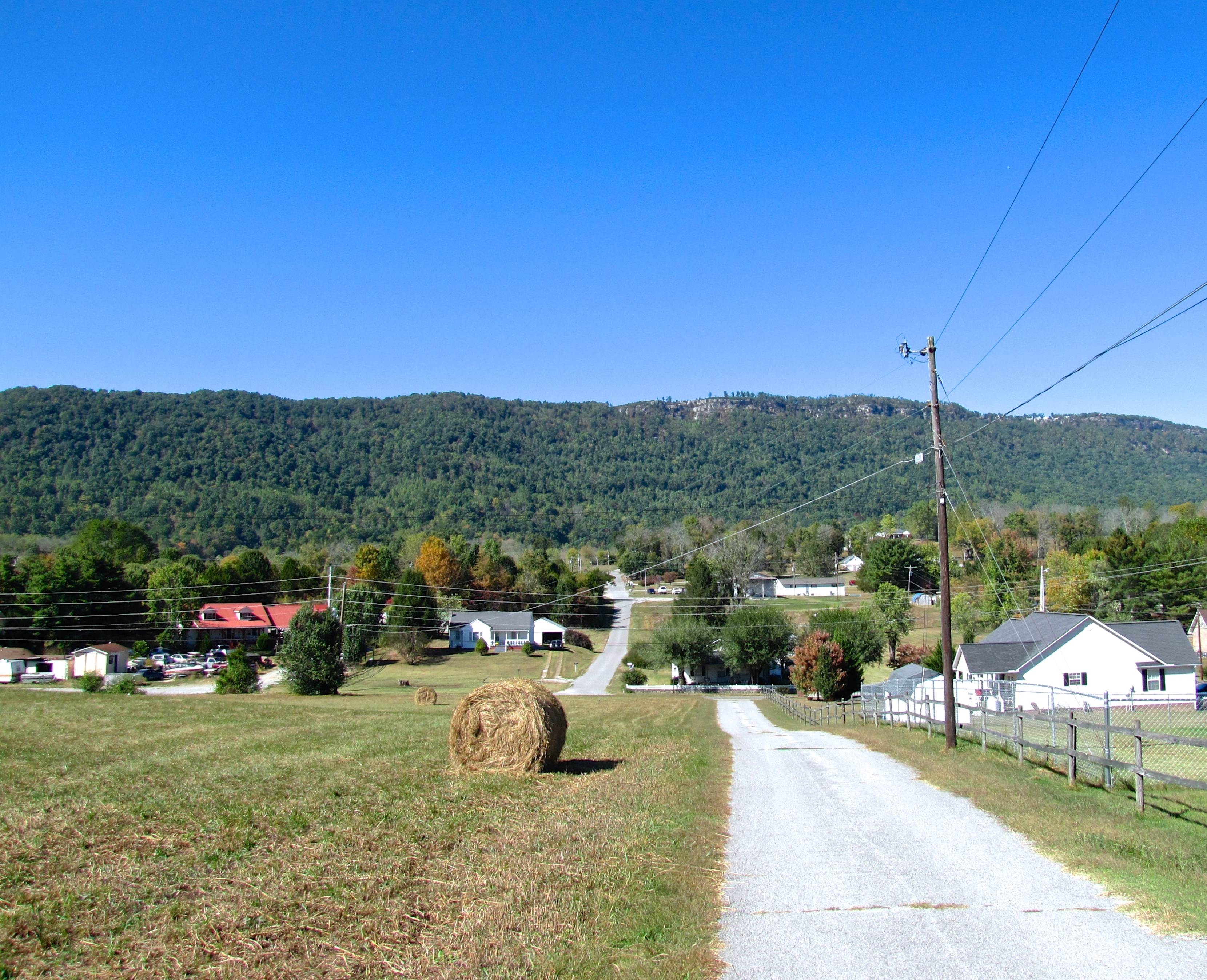 Houses in Fincastle, Tennessee, United States, viewed from Angel Road. Cumberland Mountain spans the horizon.